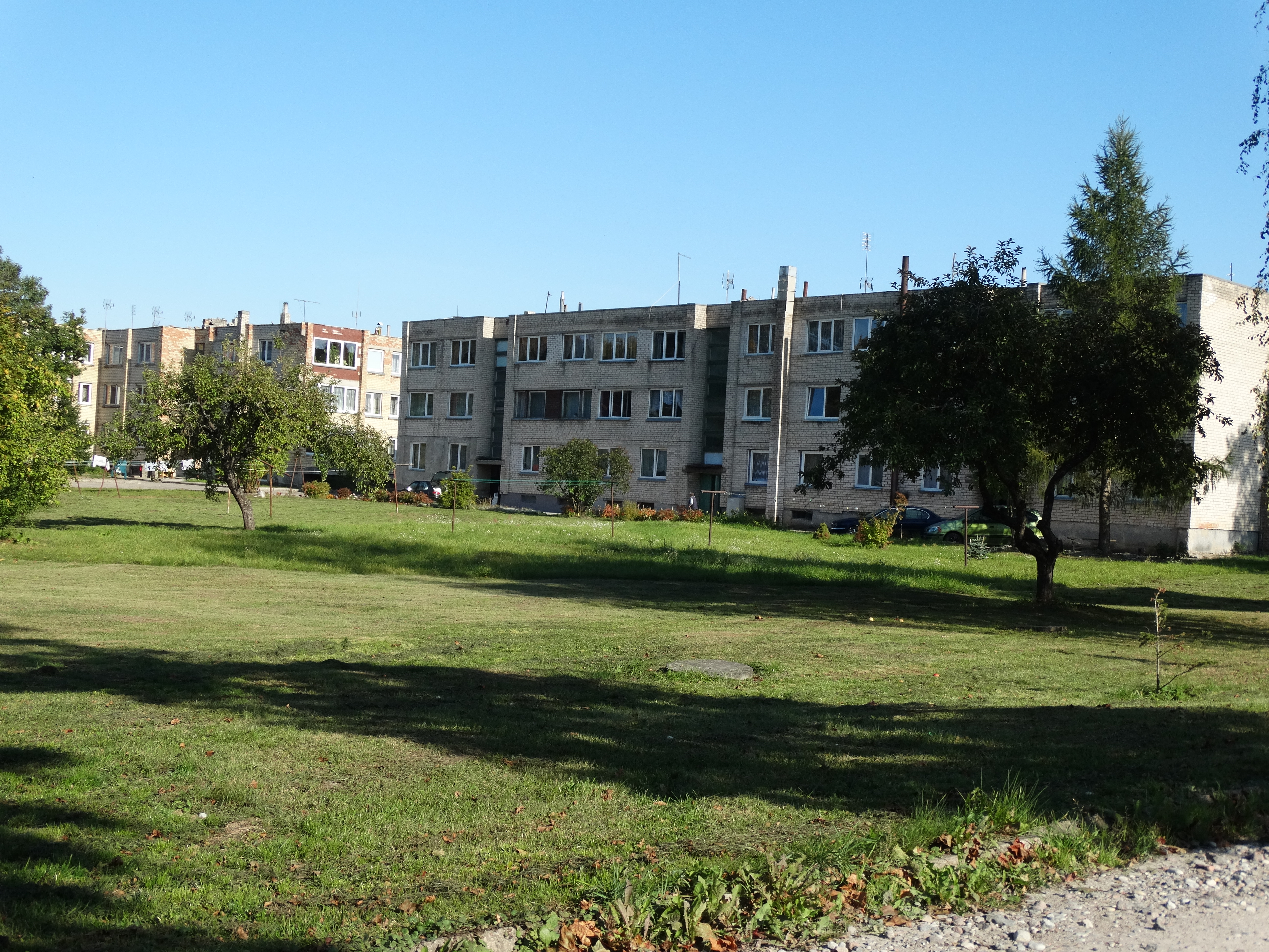 Blinstrubiškiai, Raseiniai District, Lithuania